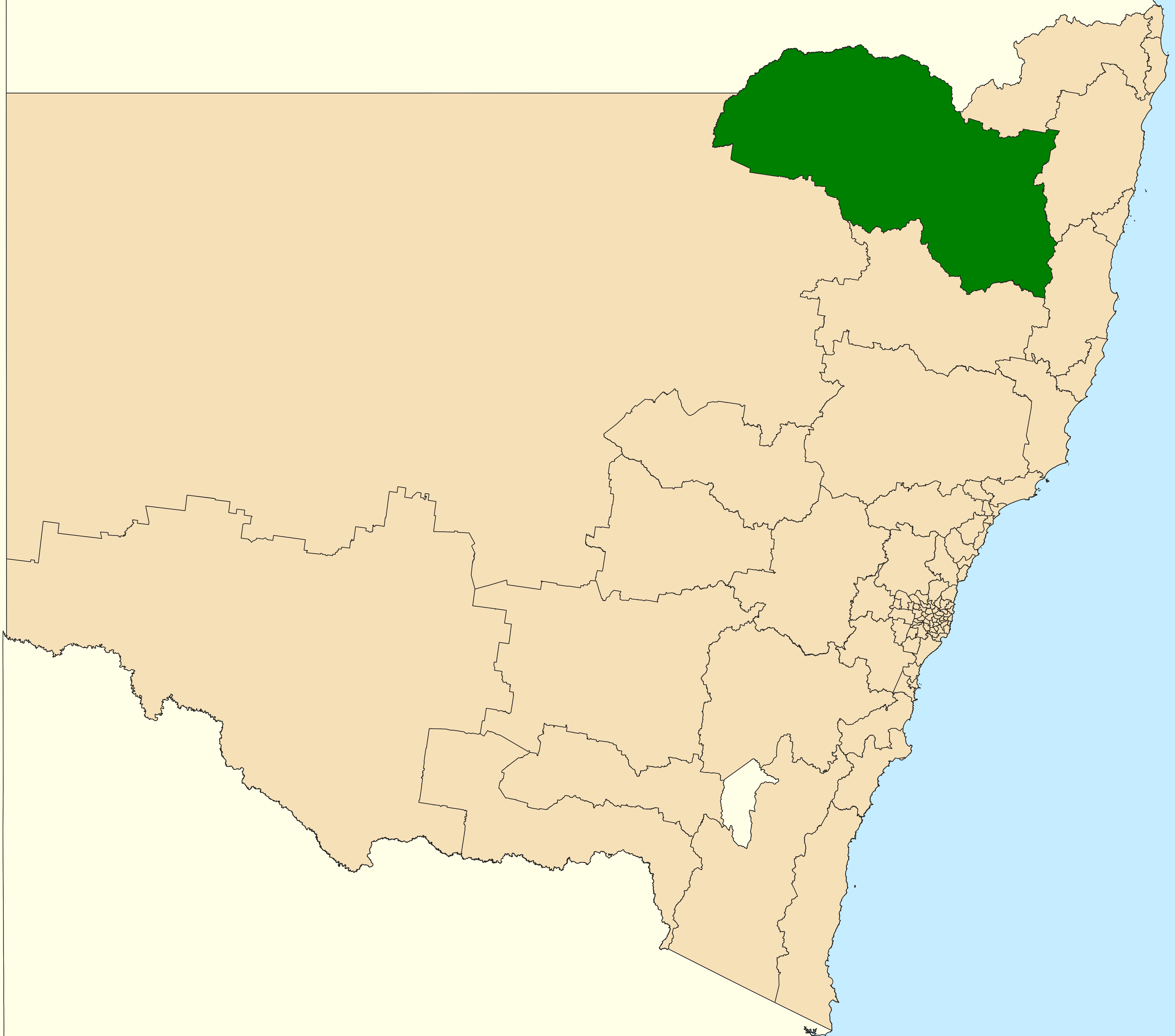 Location of the state electoral district of Northern Tablelands (dark green) in New South Wales as of the 2019 New South Wales state election. Incorporates or developed using Administrative Boundaries ©PSMA Australia Limited licensed by the Commonwealth of Australia under Creative Commons Attribution 4.0 International licence (CC BY 4.0).